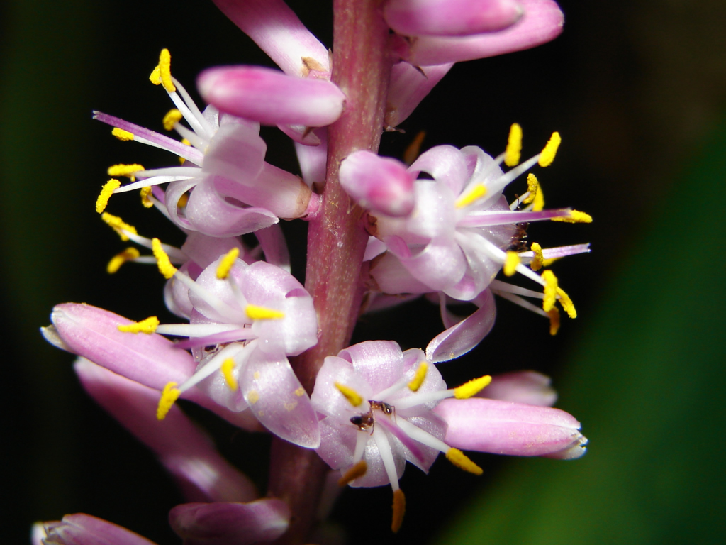 Blossoms on a ti plant, Hoolehua, Molokai, Hawaii